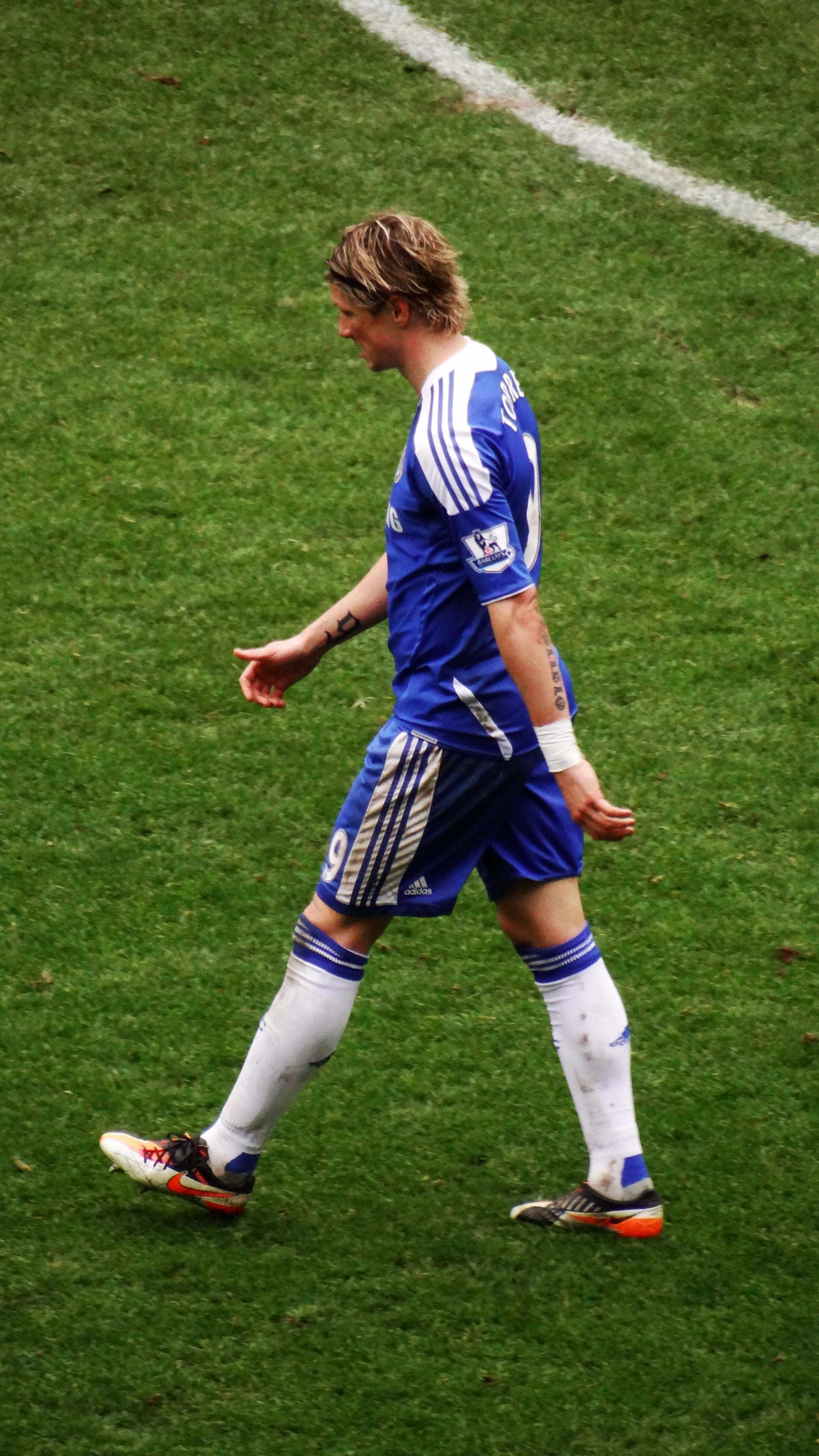 Torres in 2011-12 season